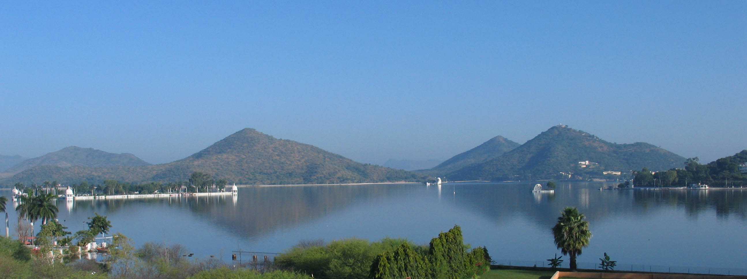 Fateh Sagar Lake, Udaipur, India